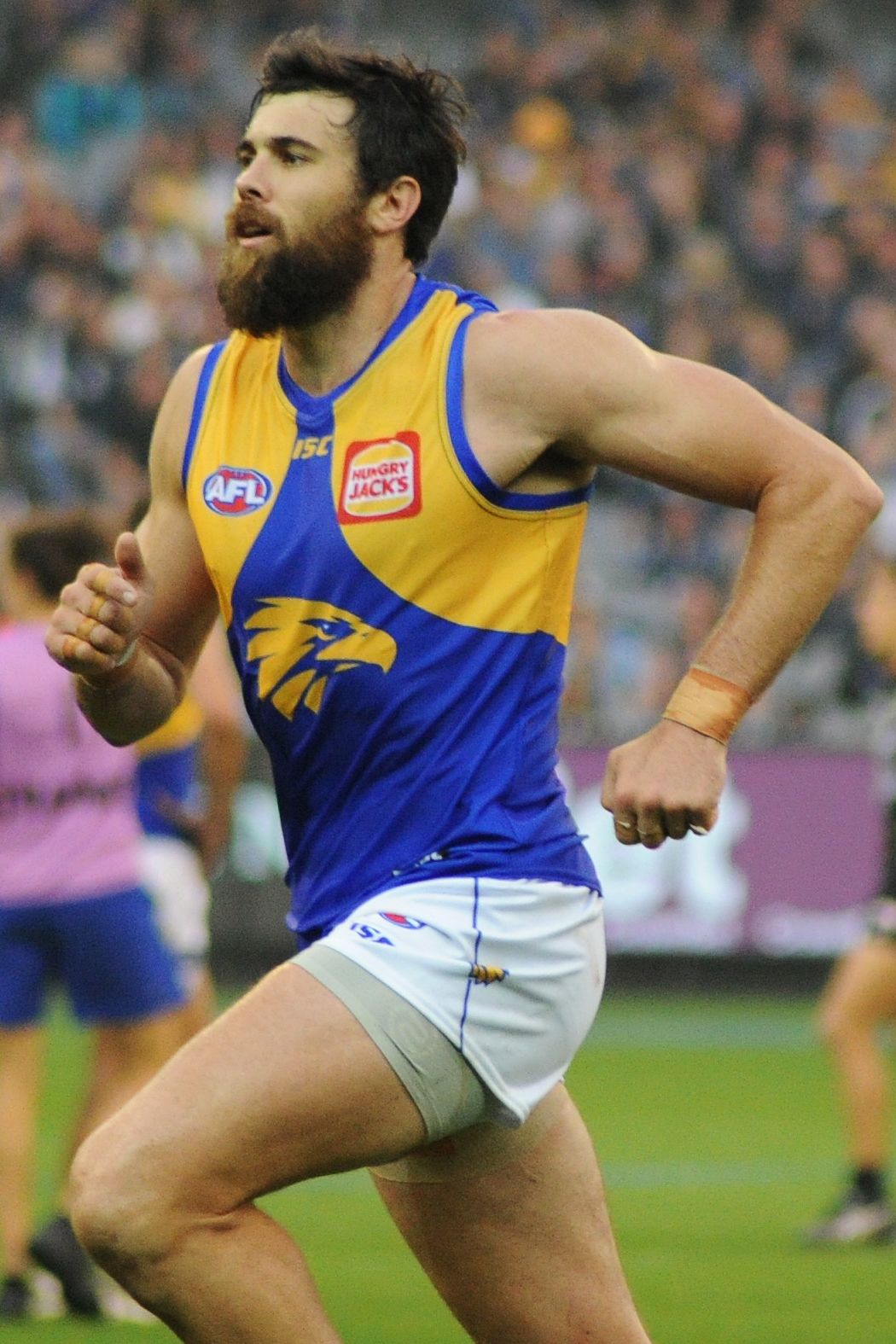 Josh Kennedy during the AFL round five match between Carlton and West Coast on 21 April 2018 at the Melbourne Cricket Ground in Melbourne, Victoria.